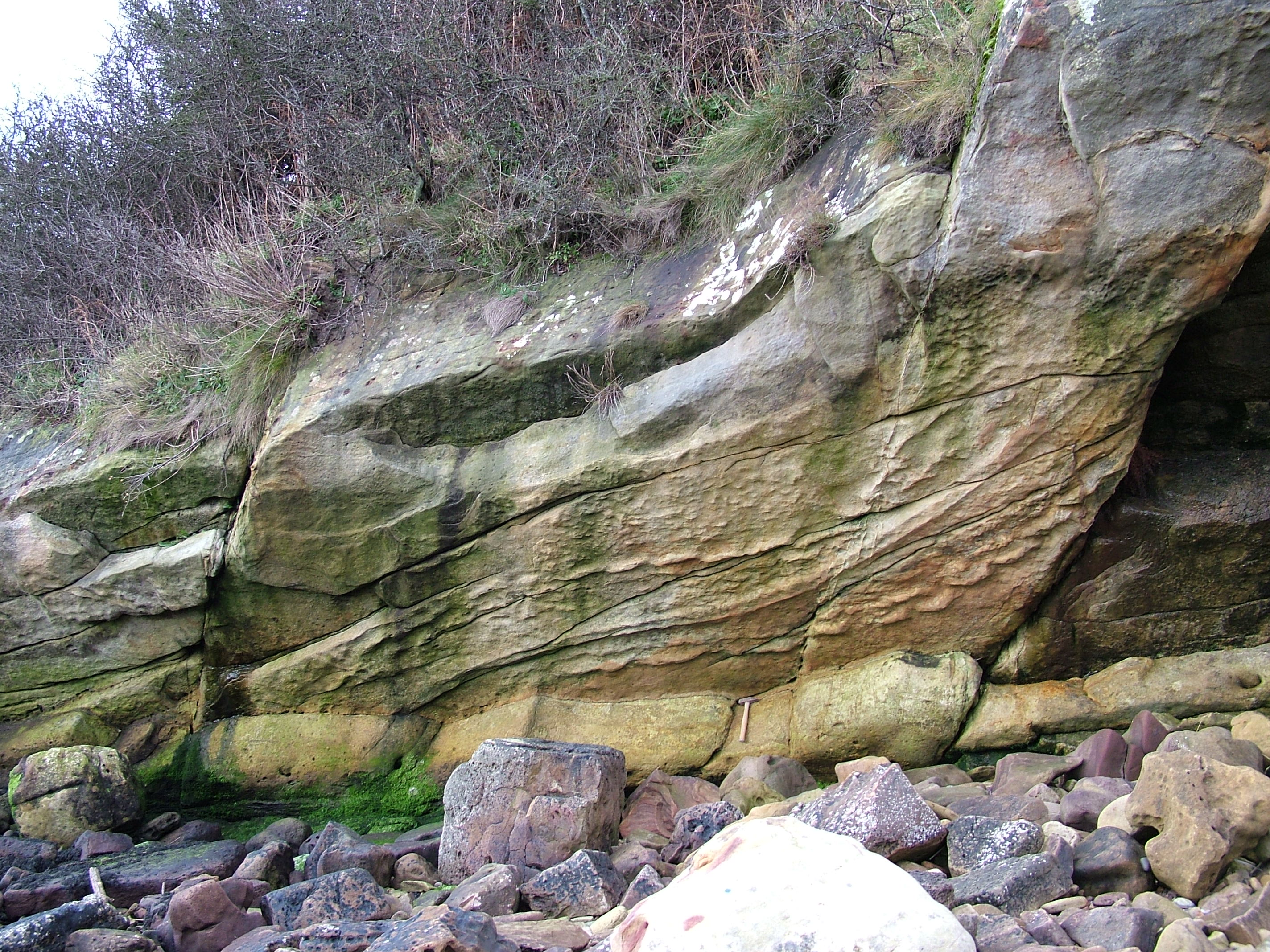 image of Hibbertopteroid track as provided by Michael Whyte on 2 December 2005. The track is the long curved line stretching from left to right, just above the geological hammer, with additional marks on the two sides of the curved line. Note that the sandstone bed is dipping at 45 degrees away from the viewer.